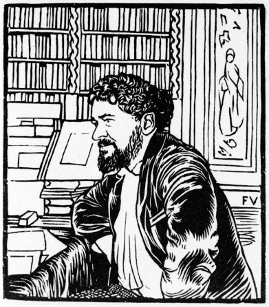 Portrait of French writer Octave Uzanne (1852-1931) by Félix Vallotton (1865-1925)